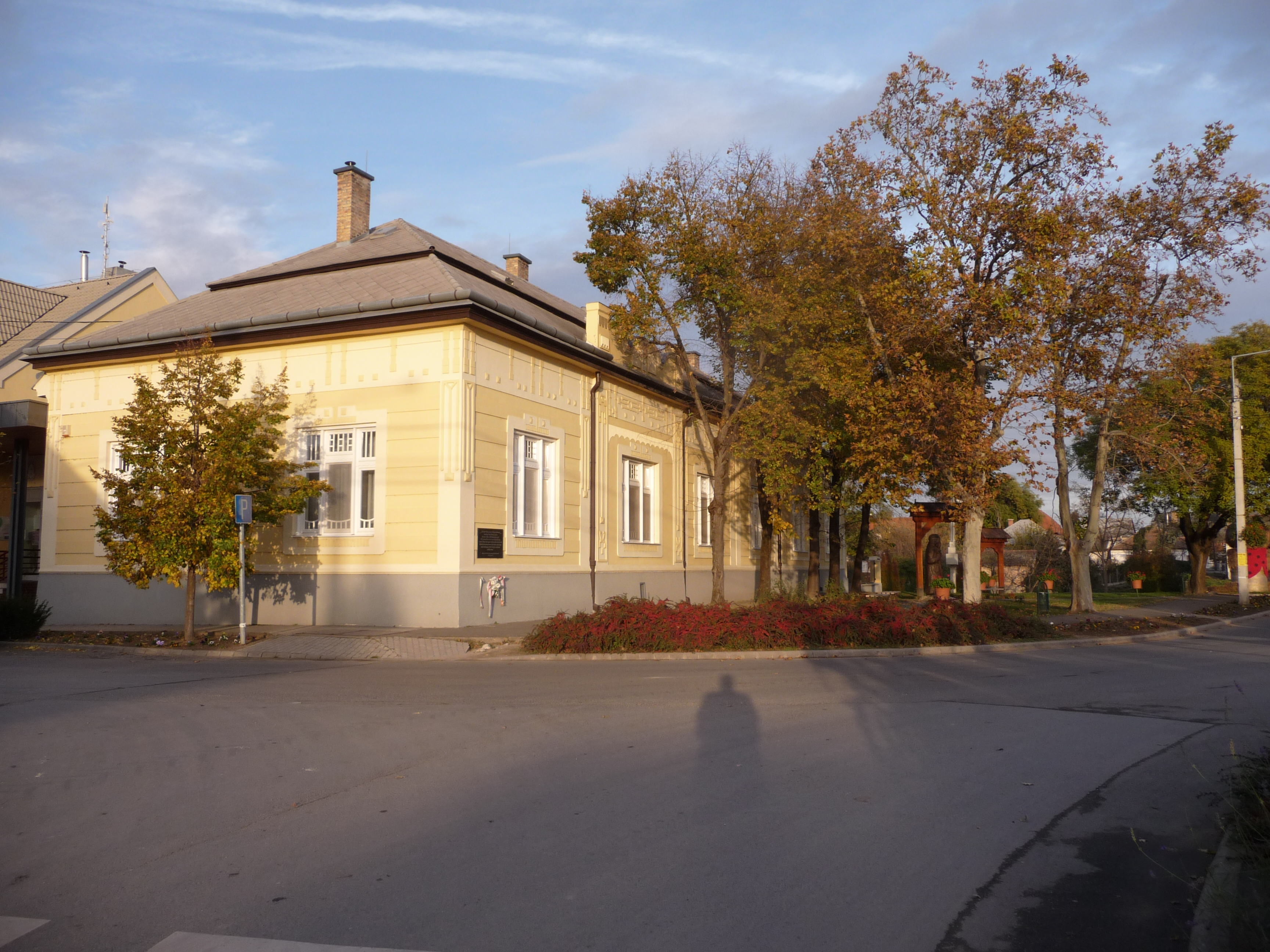 Solt town hall